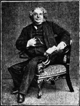 Mark Lemon, the first and most well-known editor of the "Punch" magazine.